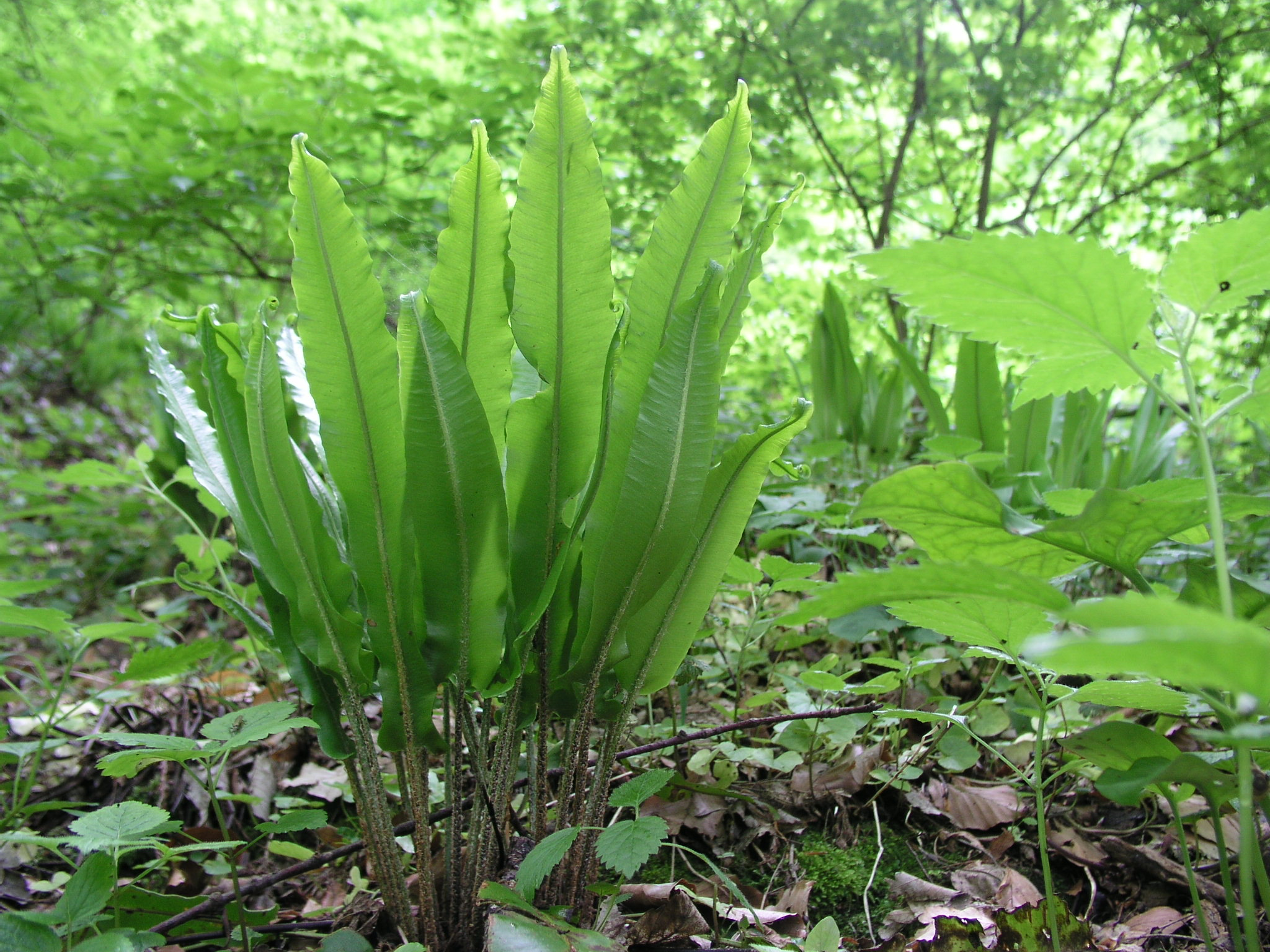 Asplenium scolopendrium